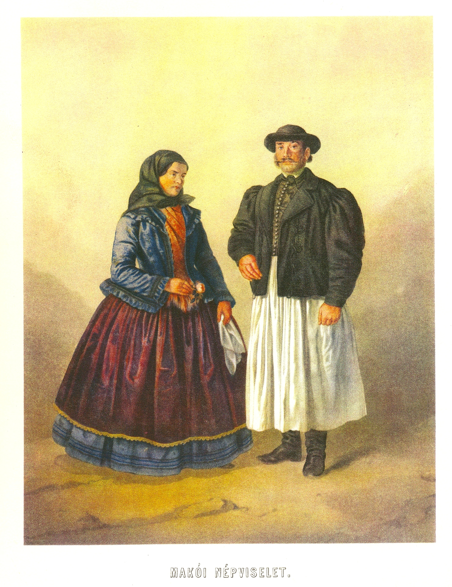 Older Hungarians from Makó (colorful stone drawing)